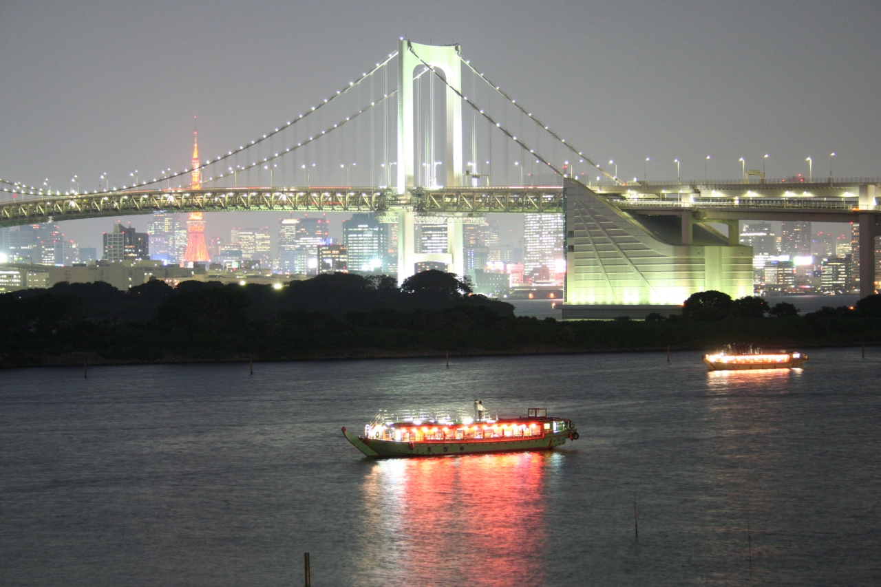 Rainbow Bridge Viewed From Odaiba Tokyo Bay